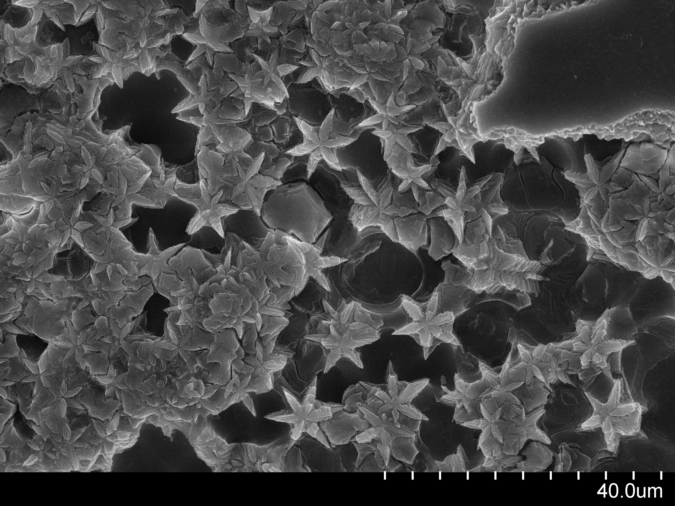 Diopside microstructure after 850 C burning. It was subjected HF acid pickling during 2 minutes.